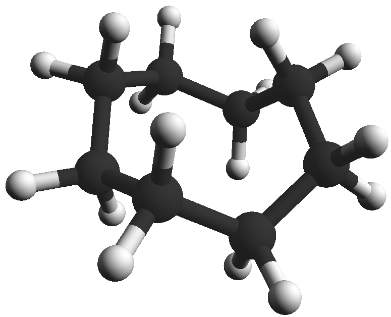 Cyclooctane ball and stick